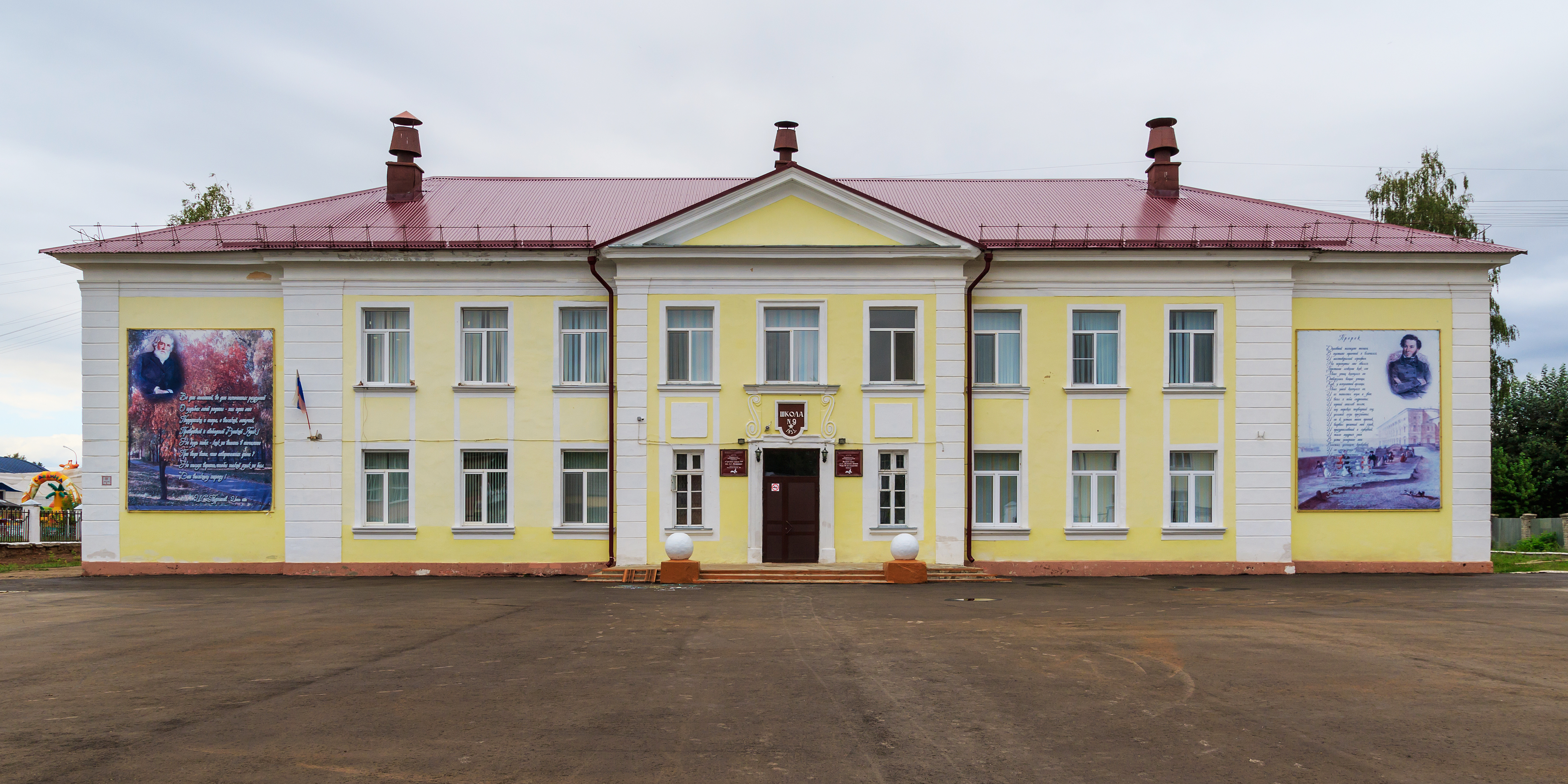 School number 9 in Volzhsk, Mari El, Russia